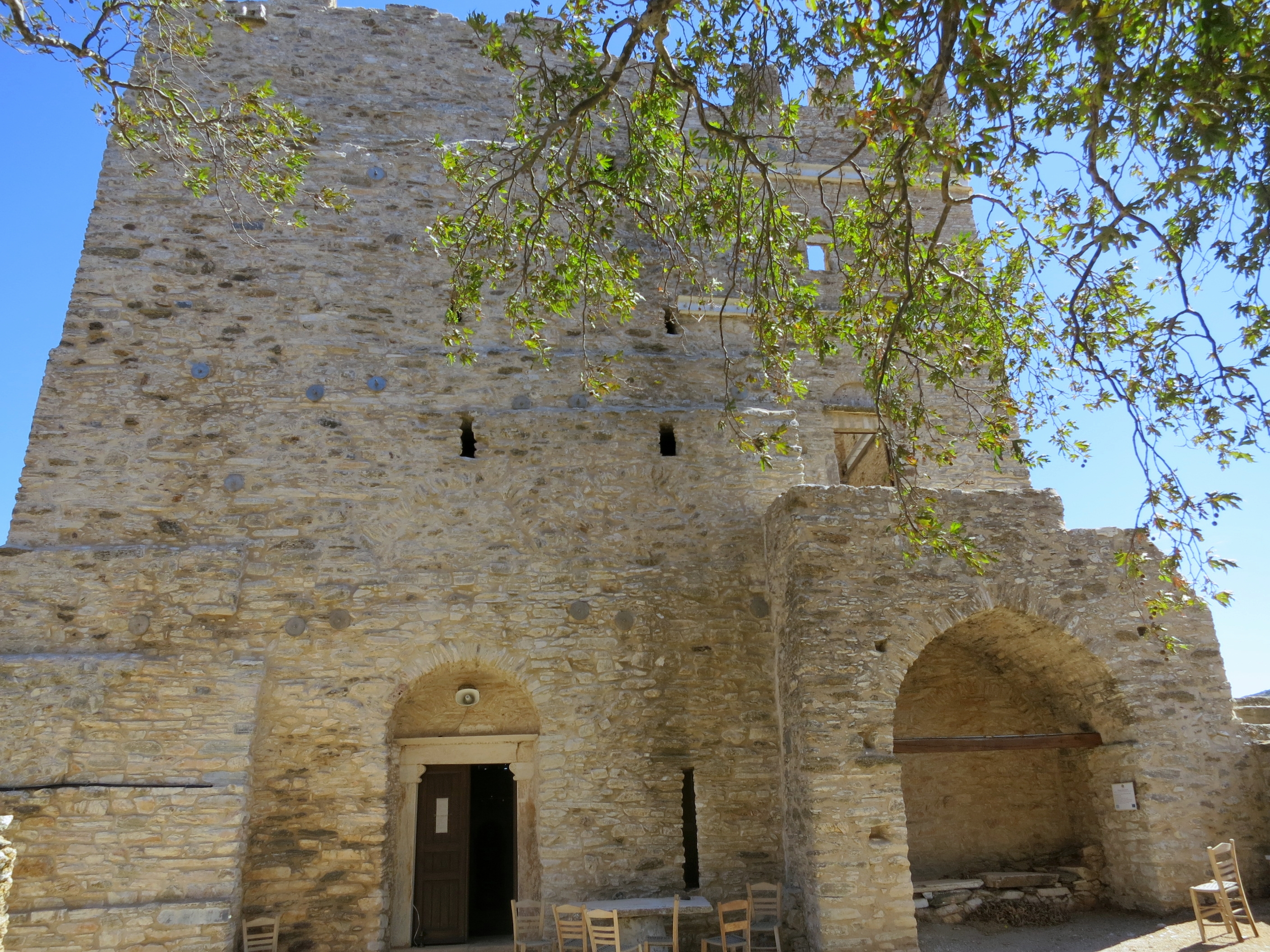 The monastery Moni Fotodotis (Photodotis), the entrance to the church, 10th to 15 century. Naxos.